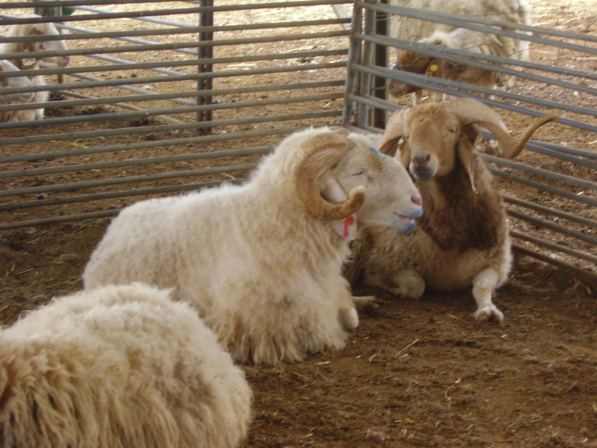 Male Sheep in the Negev